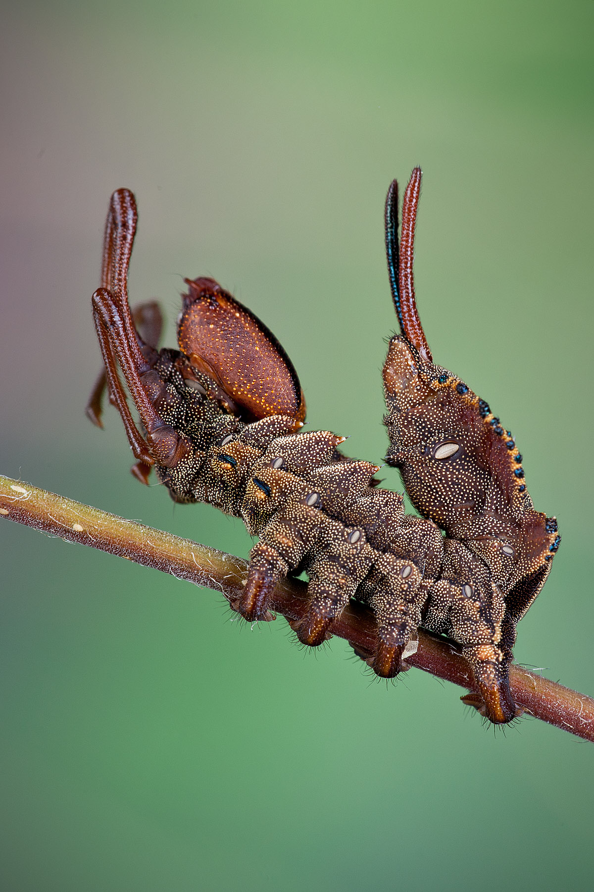 Dies ist die Raupe des Buchenspinners Stauropus fagi nach ihrer 3. Häutung